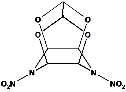 Structural formula of TEX